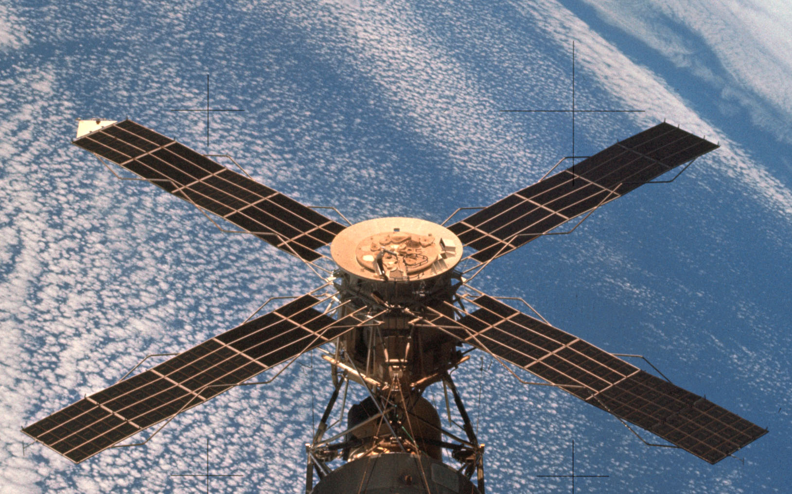 An overhead view of the Skylab Orbital Workshop in Earth orbit, focused on the Apollo Telescope Mount, as photographed from the Skylab 4 Command and Service Modules (CSM) during the final fly-around by the CSM before returning home. The space station is contrasted against the pale blue Earth.